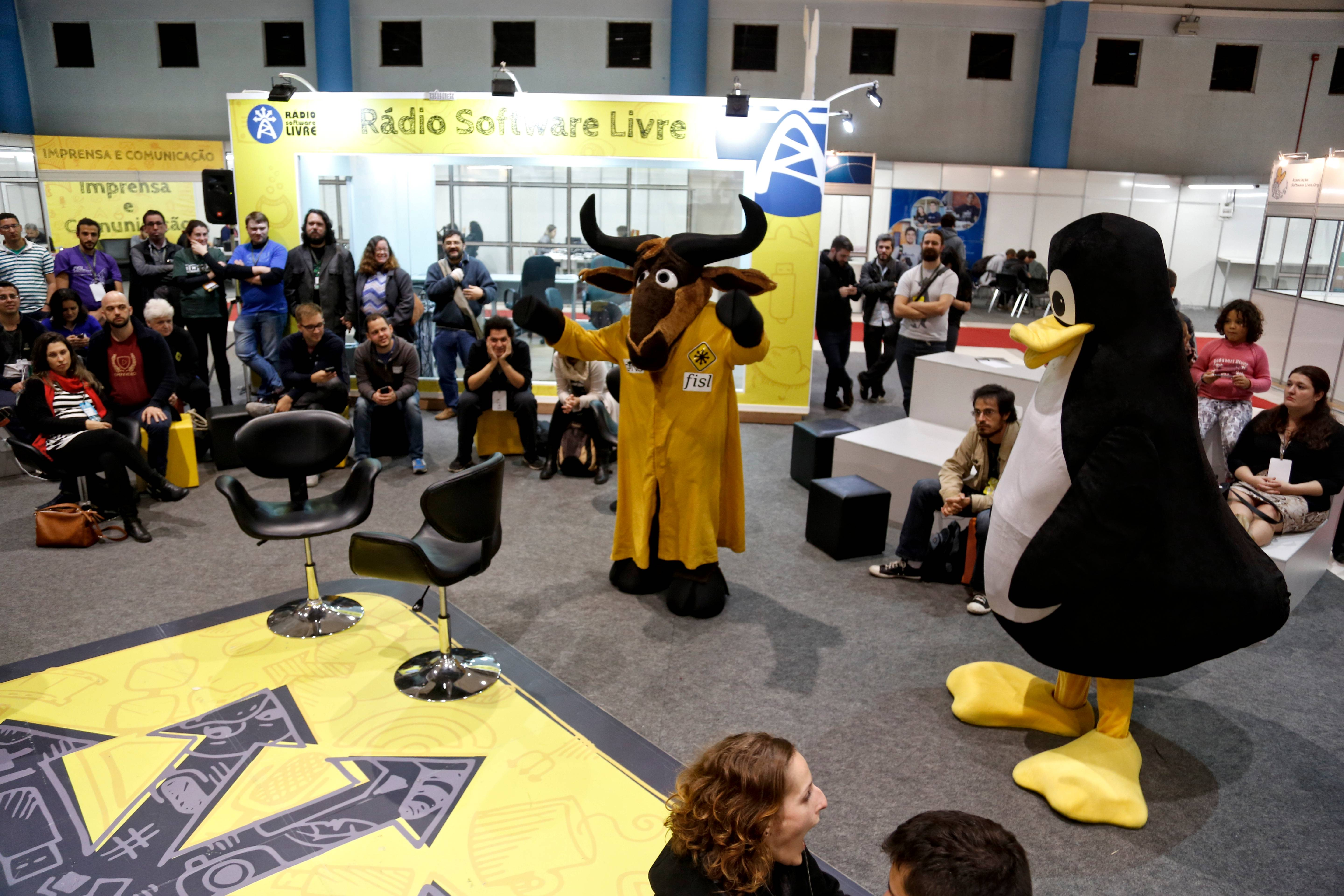 Closing of FISL 16